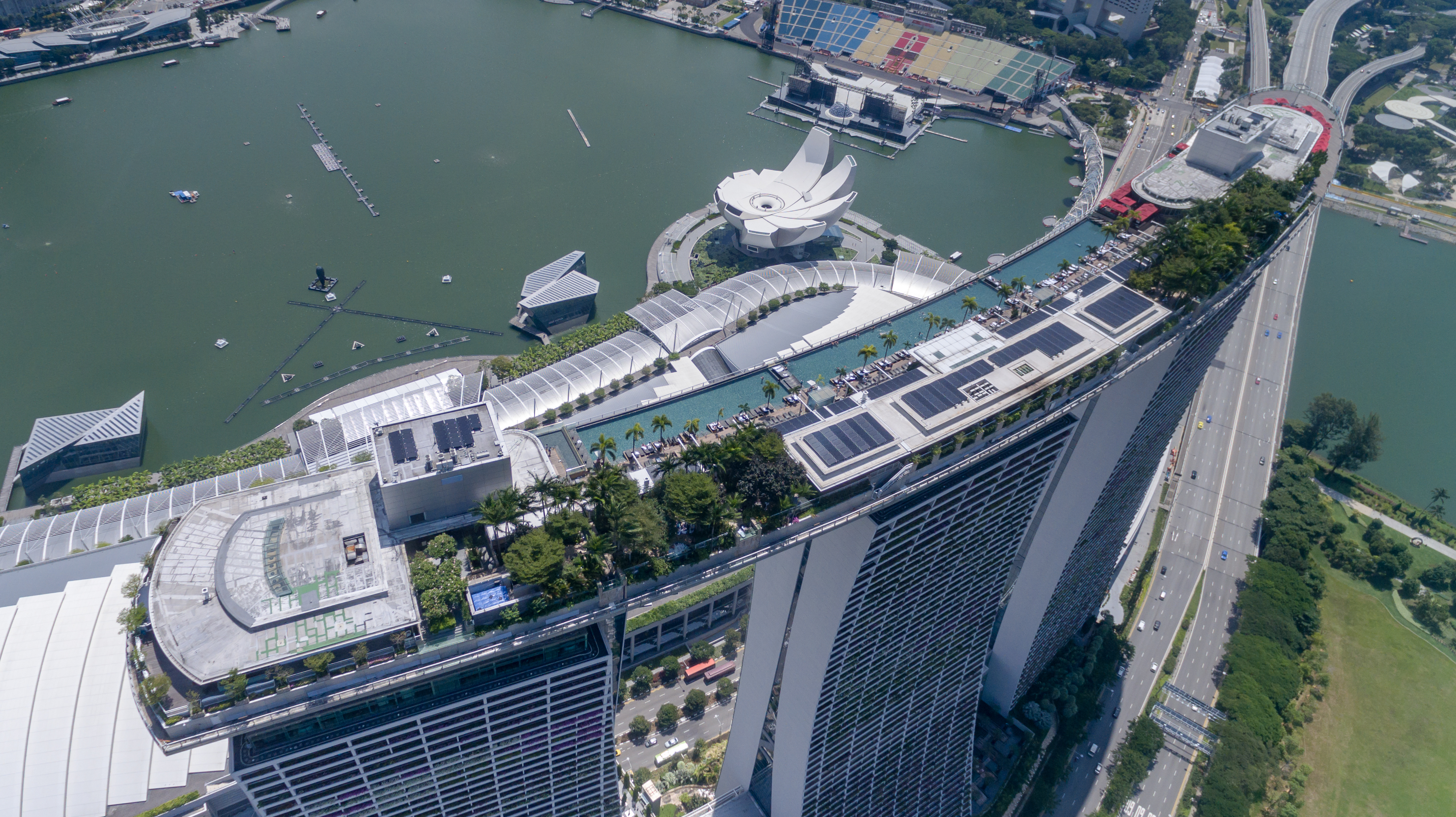 Aerial of the roof top pool Marina Bay Sands Hotel